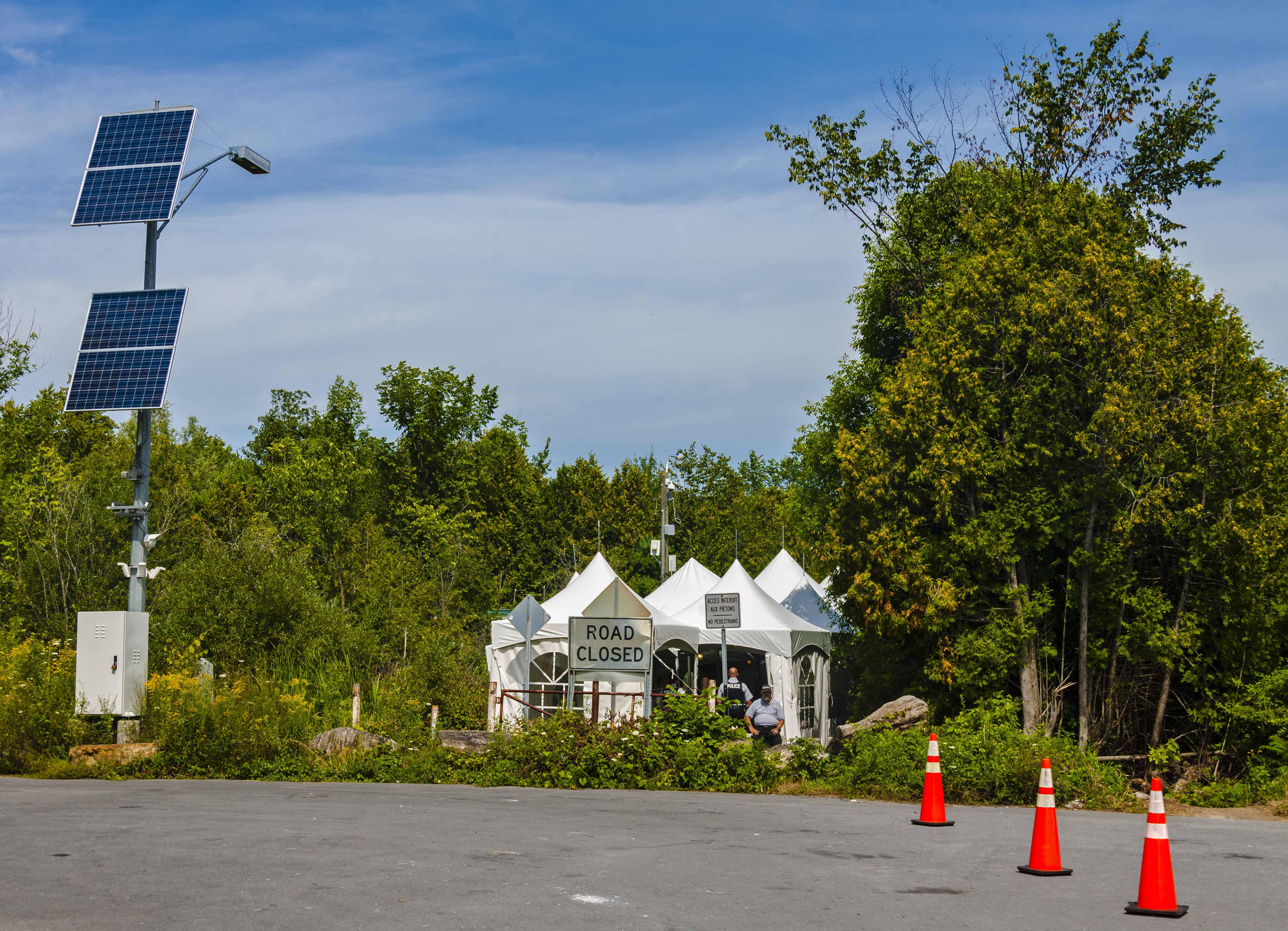 Dead end of Roxham Road, Champlain, NY, USA, at Canadian border. Pole supports equipment used by U.S. Border Patrol to monitor; white tents in background are in Canada to process asylum seekers entering illegally here. Traffic cones are the area where said emigrants are usually let out by taxis and limousines giving them a ride from nearby Plattsburgh.